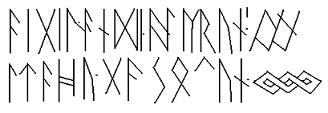 Drawing of the runic inscription from the Pforzen buckle (manually traced by image creator)/uploader.